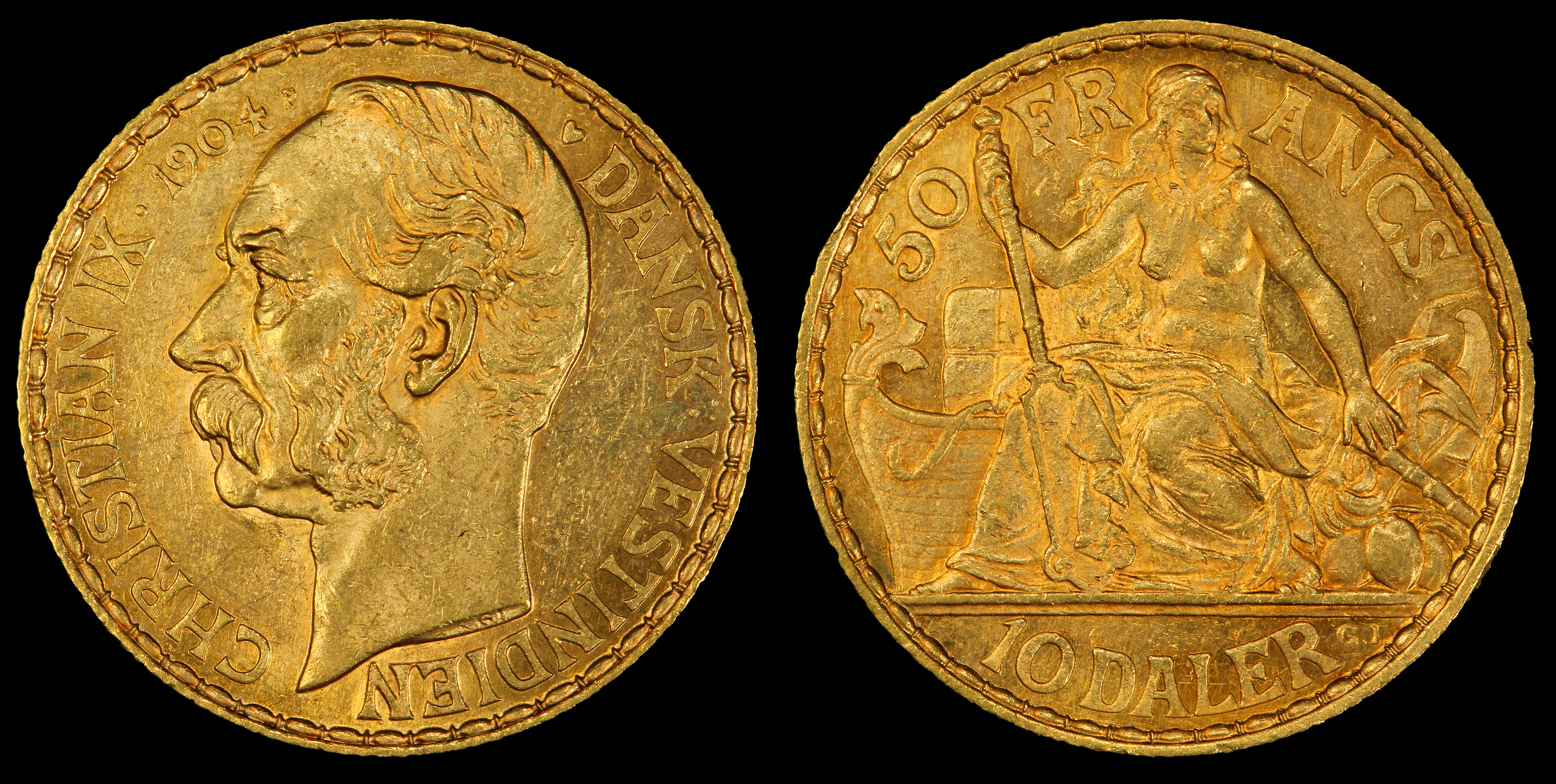 Danish West Indian 10 daler gold coin (1904) depicting Christian IX of Denmark. Only year of issue for the denomination (10 daler/50 Francs), only 2,005 were struck.